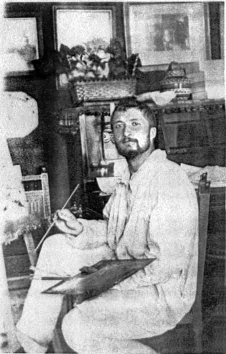 French artist André Devambez (1867-1944)